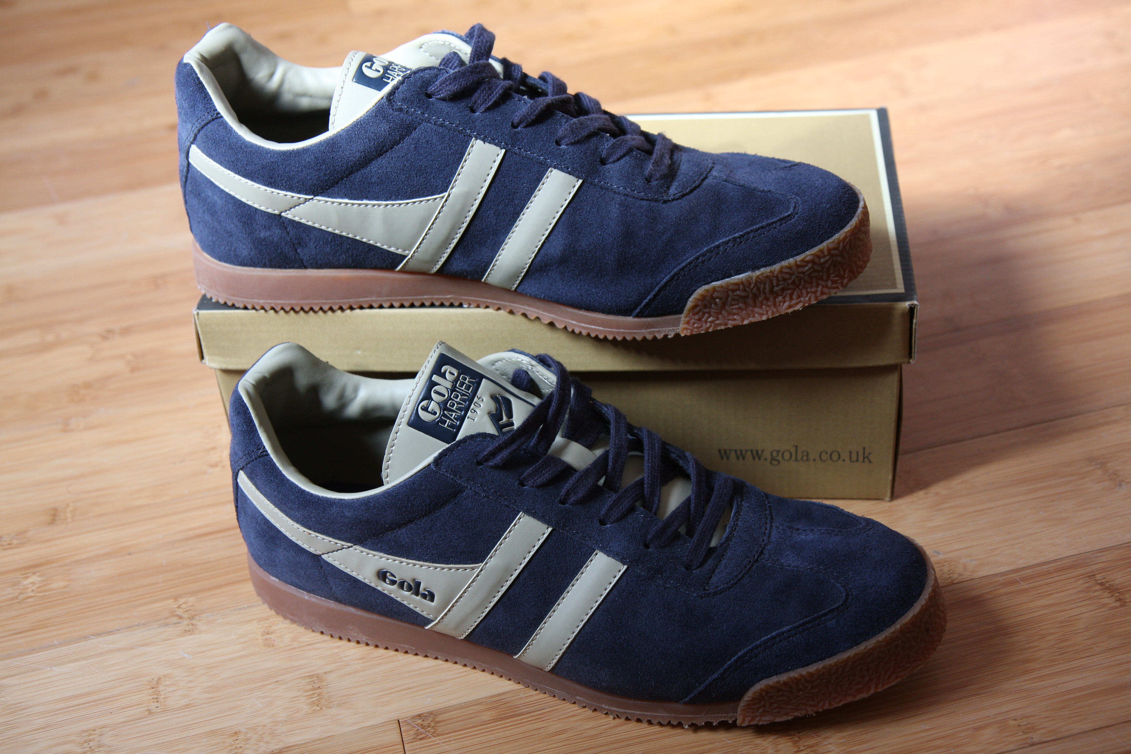 A navy/beige pair of Gola Harrier mens trainers (originally created in 1968) resting on a Gola shoebox.